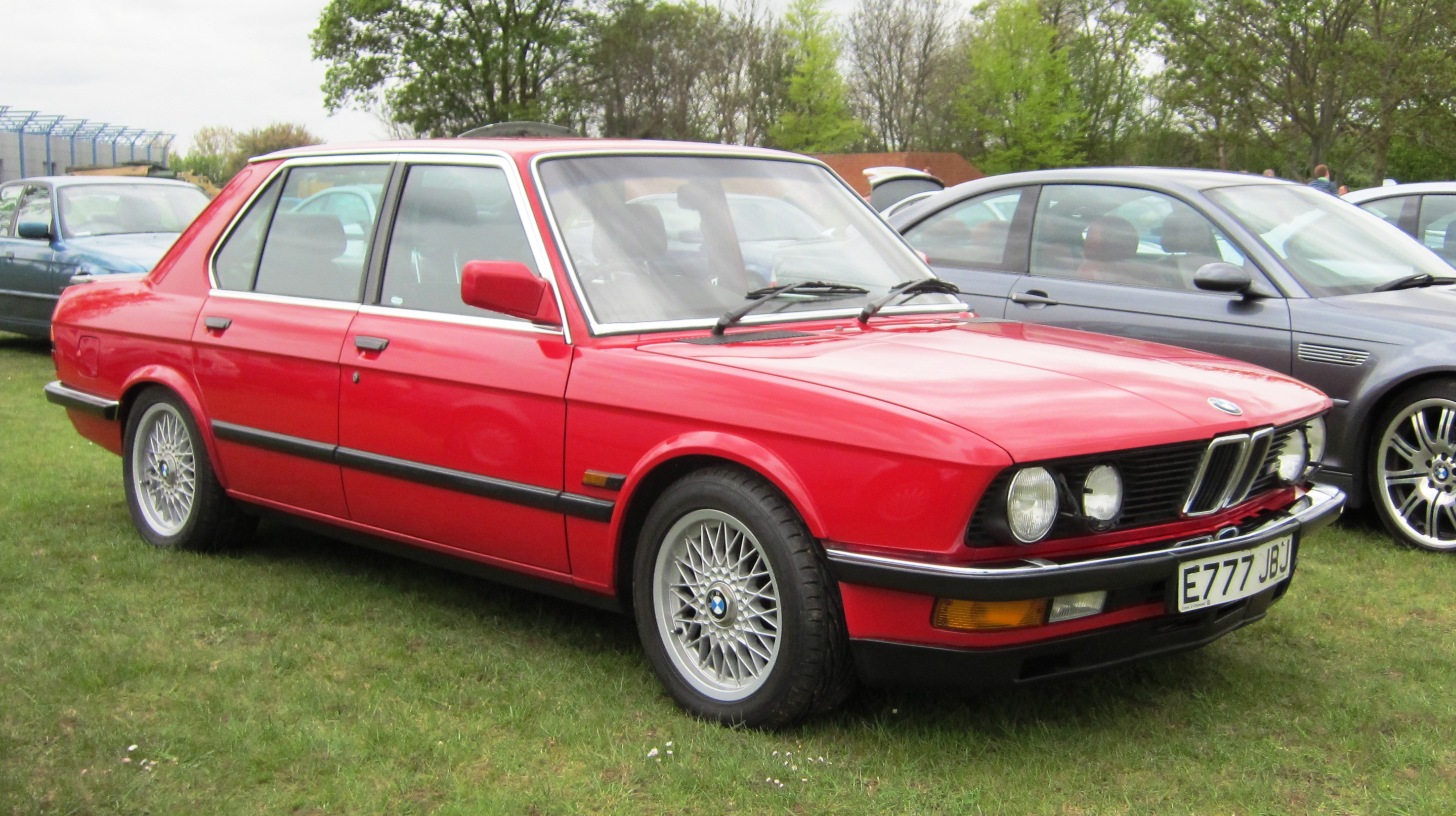 BMW M5 at Duxford